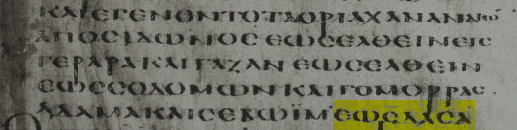 Genesis 10 19 from Codex Alexandrinus, detail showing the words "ΕΩΣ ΔΑΣΑ" or "ΕΩΣ ΛΑΣΑ"